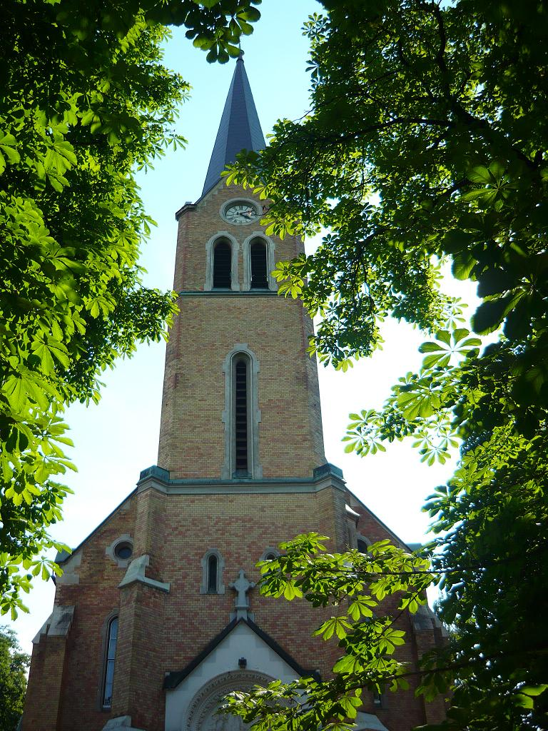 Kisboldogasszony templom (Máriaremete)